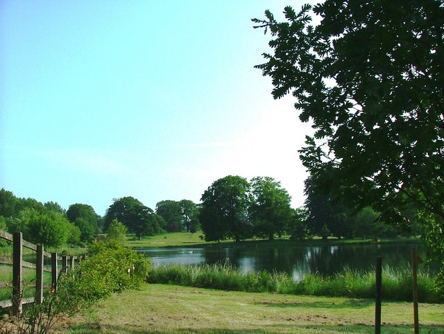 Lake near Settrington House A view over the lake near Settrington House, Settrington.